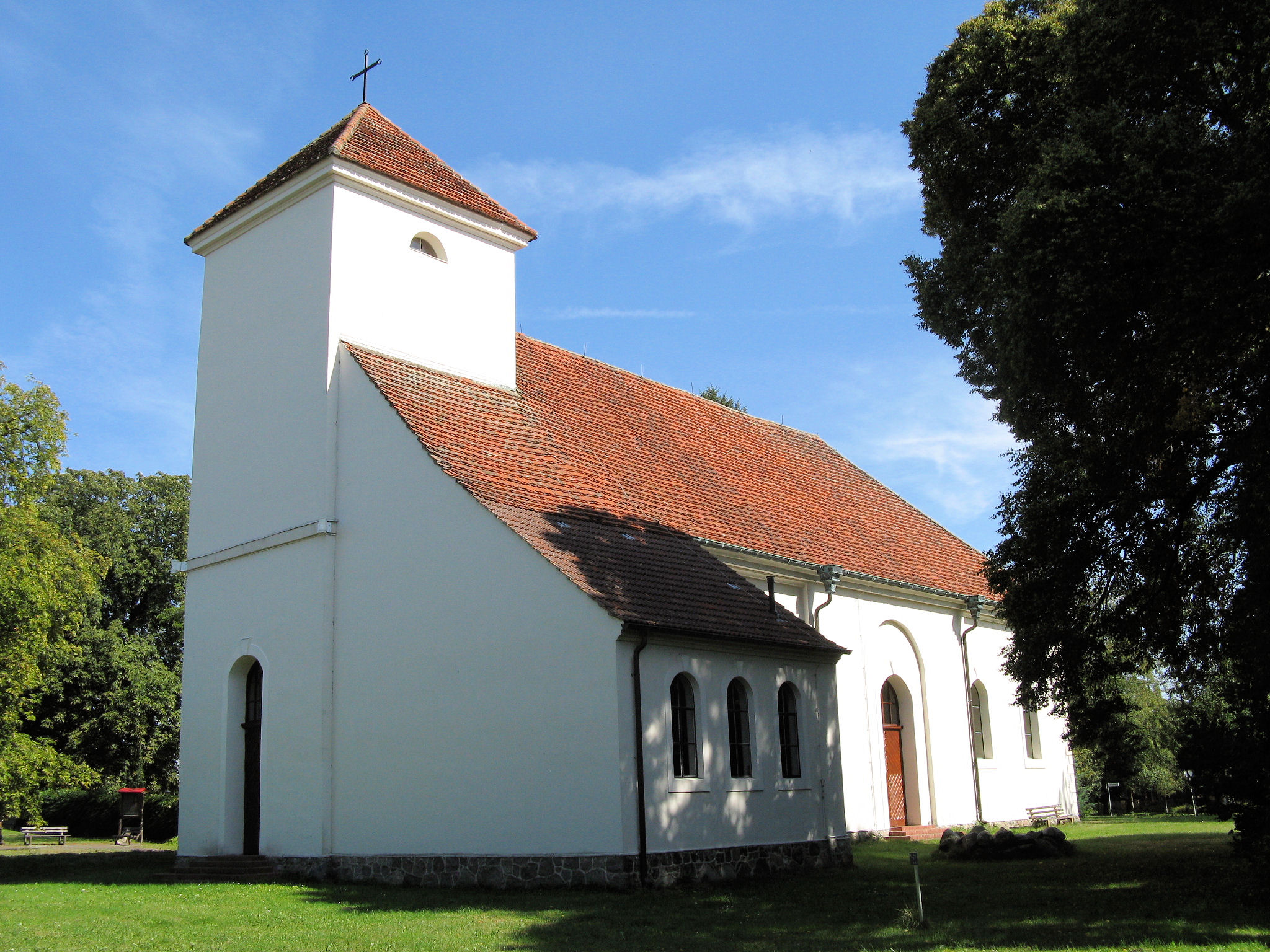 Church in Rechlin Nord, disctrict Müritz, Mecklenburg-Vorpommern, Germany